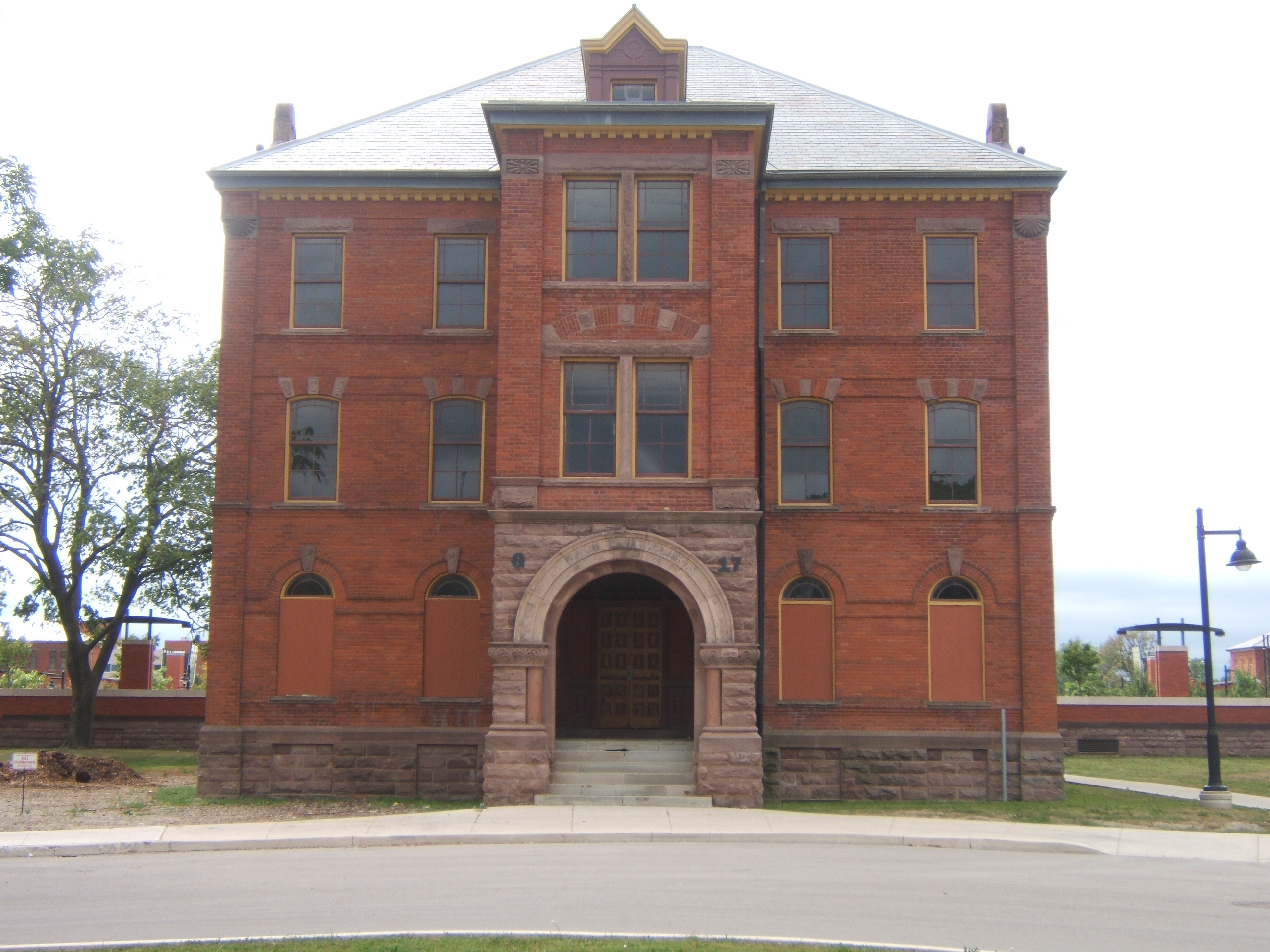 front view of the building which used to be the Lakeshore Psychiatric Hospital, later the filming location of the movies Police Academy 1,3 and 4; now part of Lakeshore Campus of Humber College, Toronto, Ontario, Canada